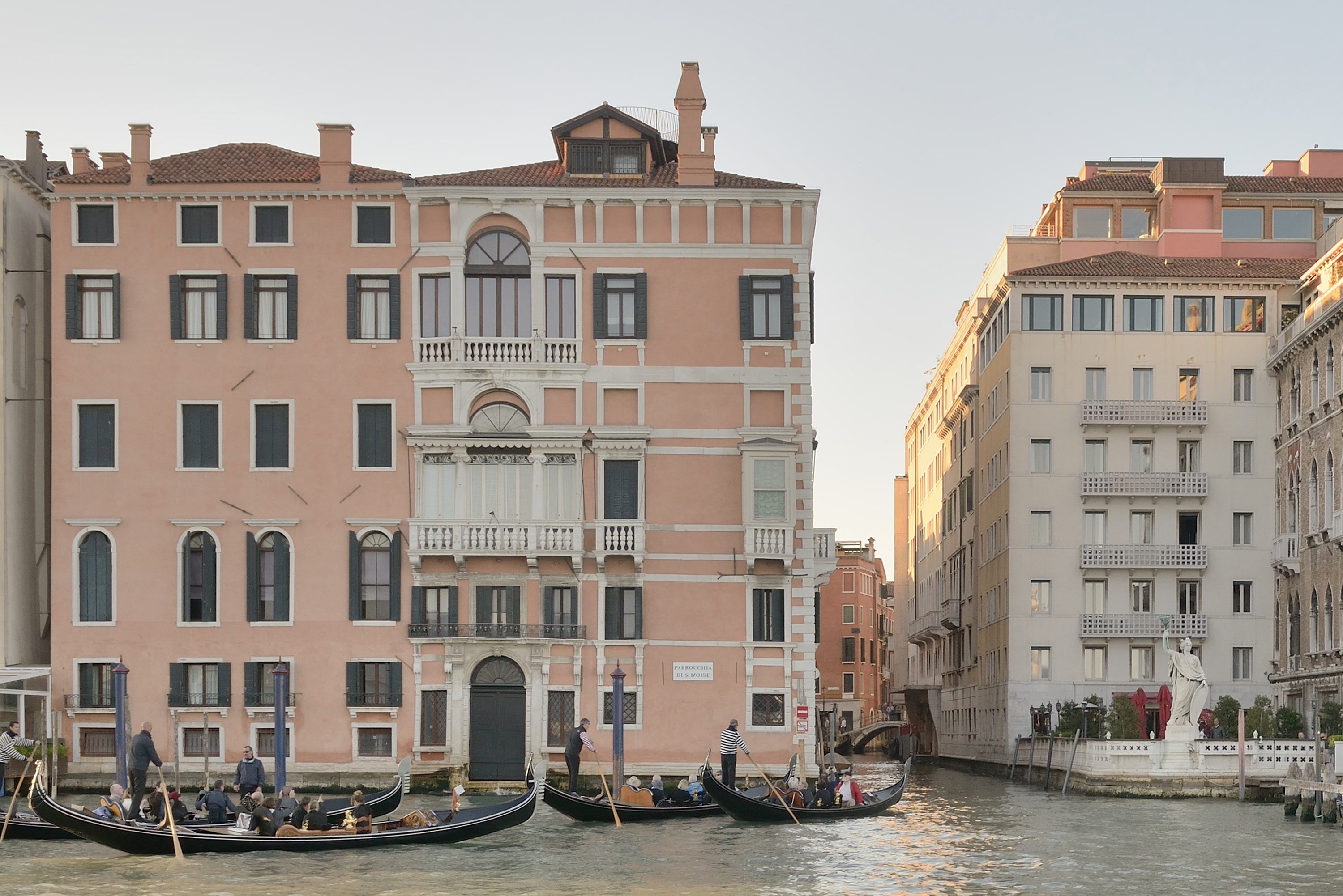 Palace Barozzi Emo Treves de Bonfili, Bauer Palazzo Hotel on the right in Venice. Facade on Grand Canal.